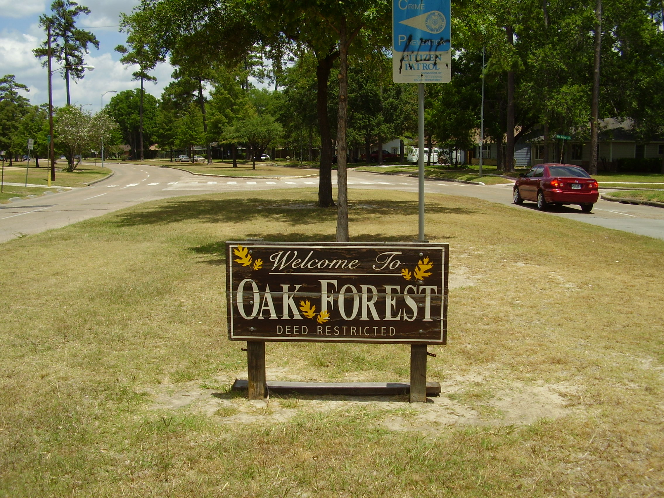 Oak Forest